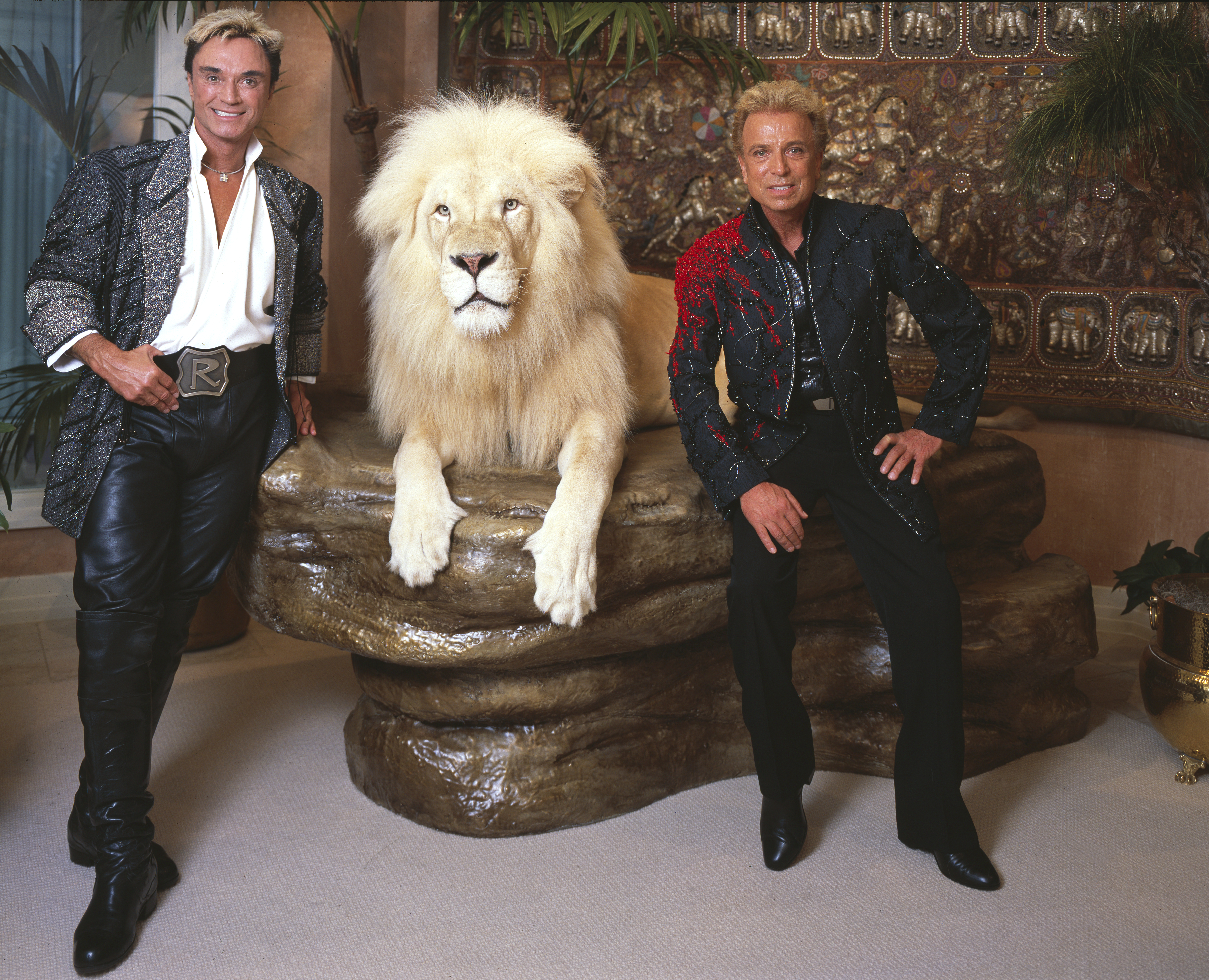 Roy Horn and Siegfried Fischbacher with their white lion by Carol M. Highsmith